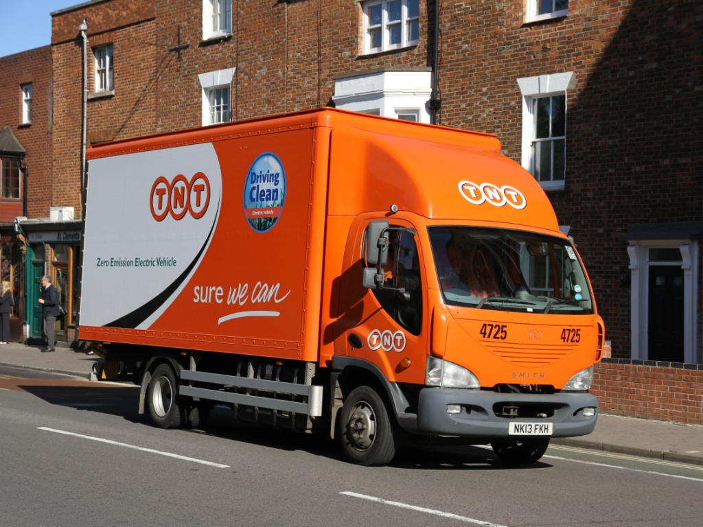 Smith Newton battery-electric van operated by TNT Express in St Clement's Street, Oxford, England